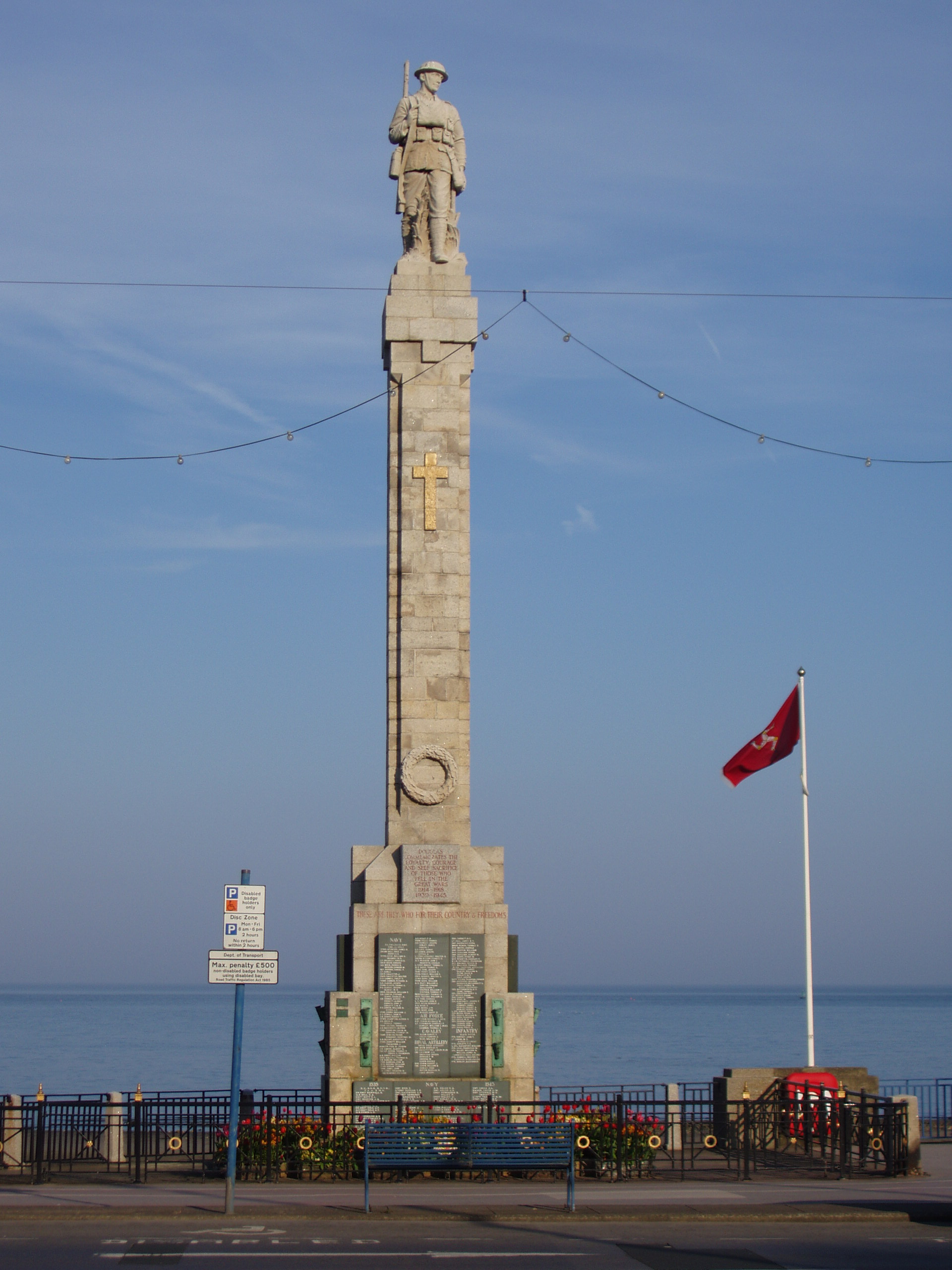 Monument located along the Loch Promenade opposite of the Gaiety Theater in Douglas, Isle of Man. It is dedicated to those fallen in World War I and World War II.